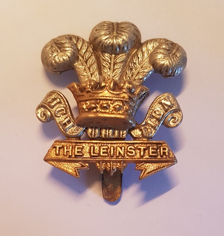 Leinster Regiment Cap Badge from personal collection